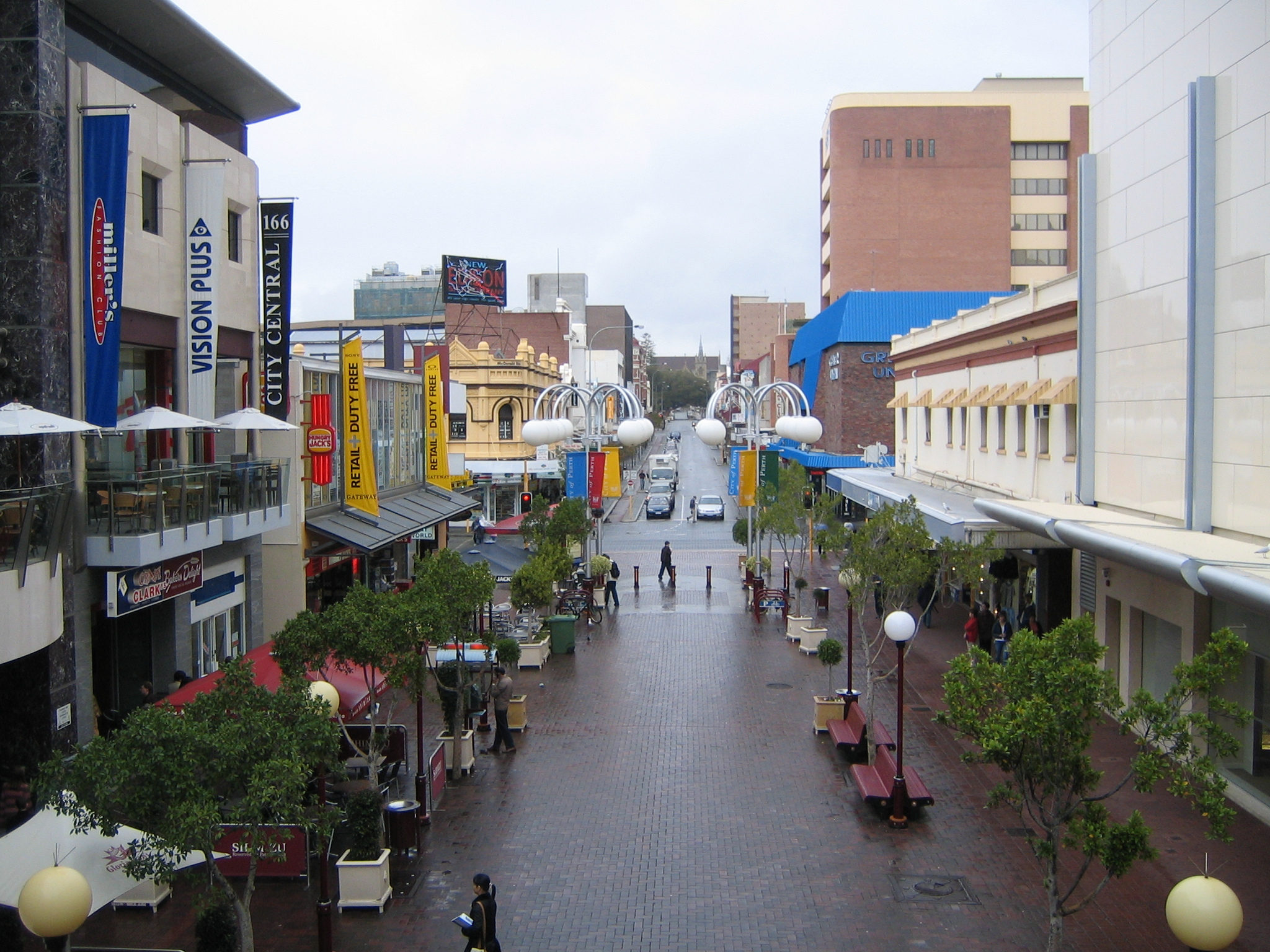 Murray Street near intersection with Barrack Street, Perth, Western Australia. in 2004